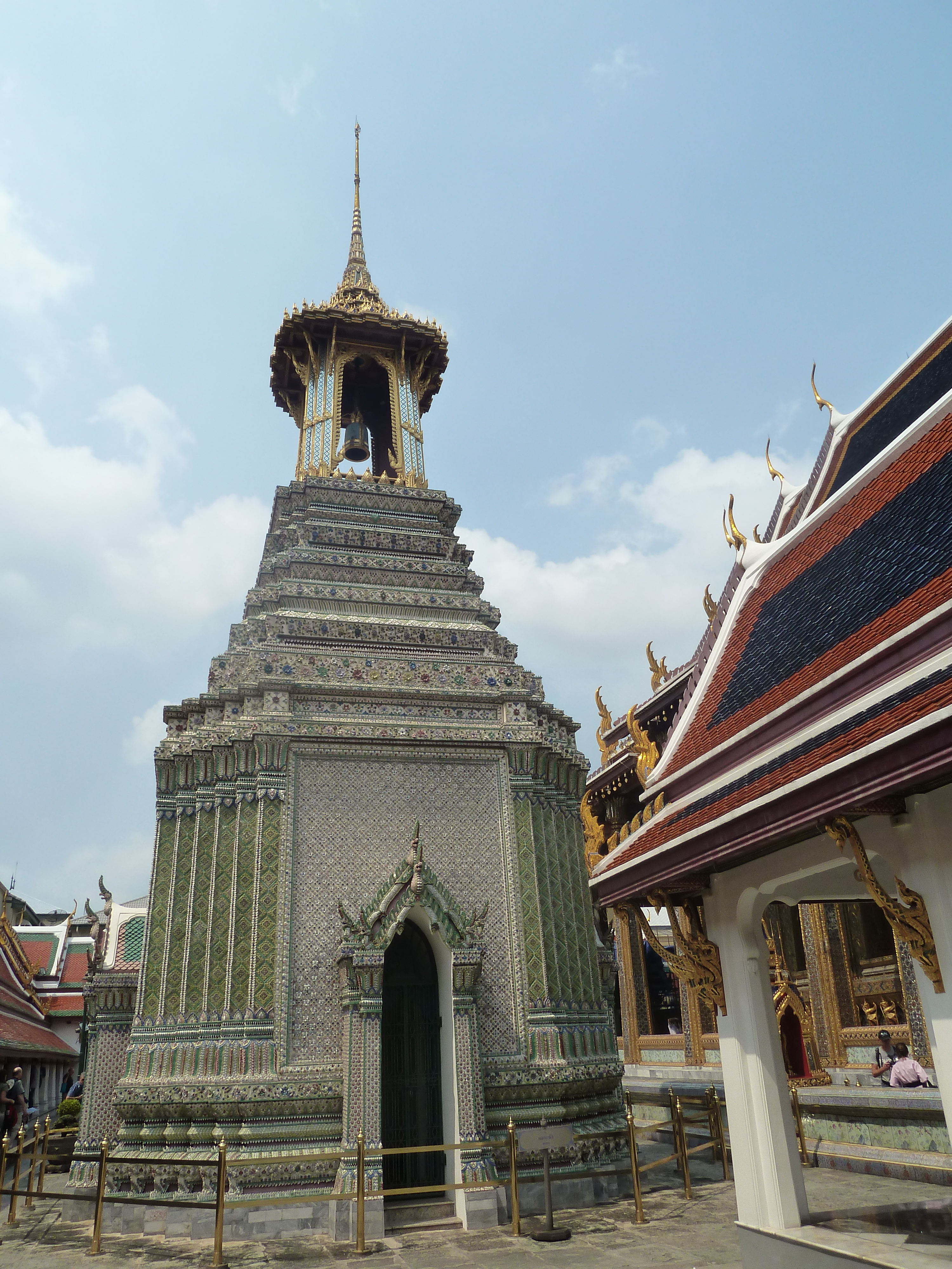 Hor Rakhang (bell tower), Wat Phra Kaew, the Grand Palace, Bangkok, Thailand